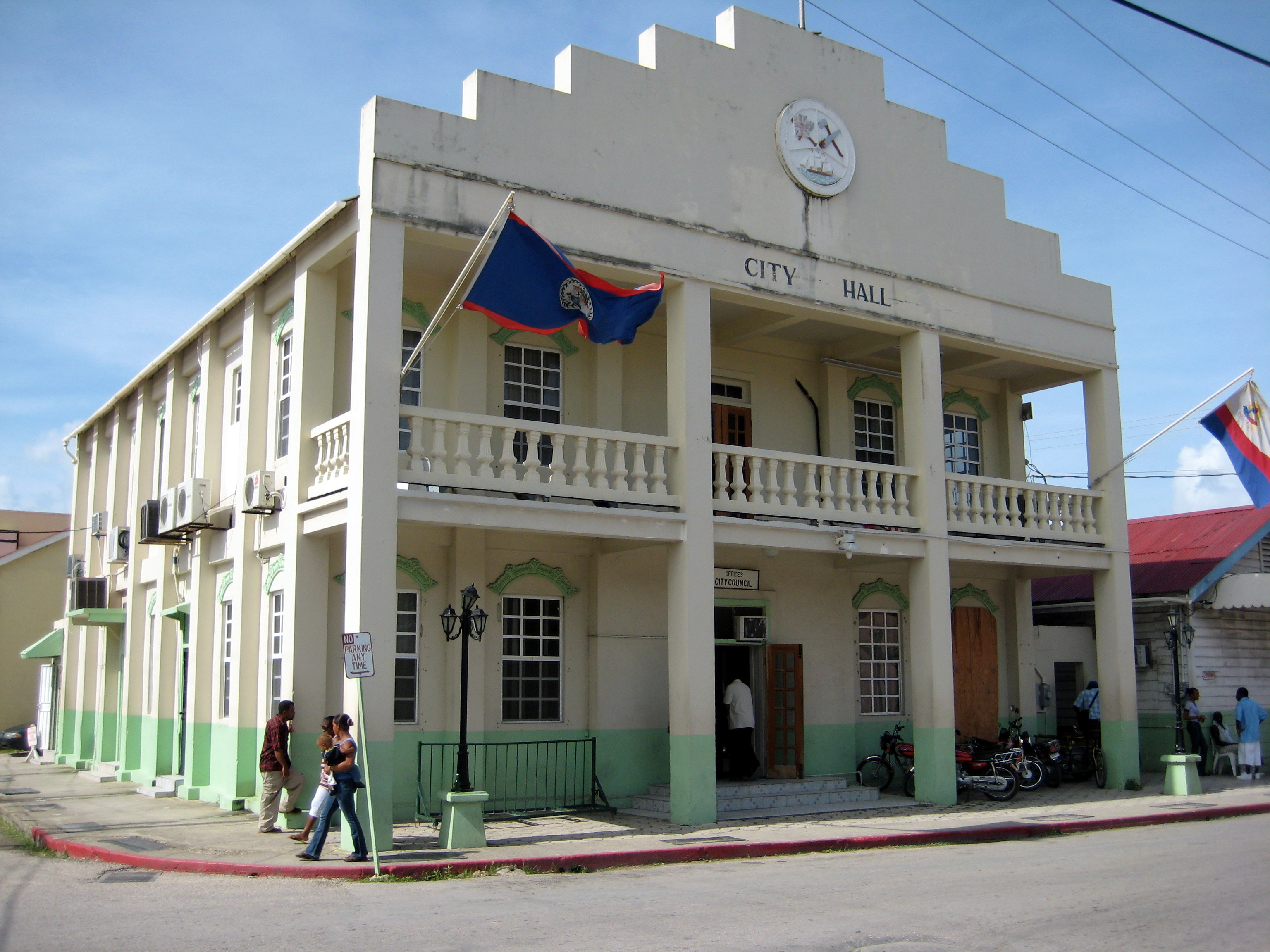 Belize City Hall in Belize City, Belize.